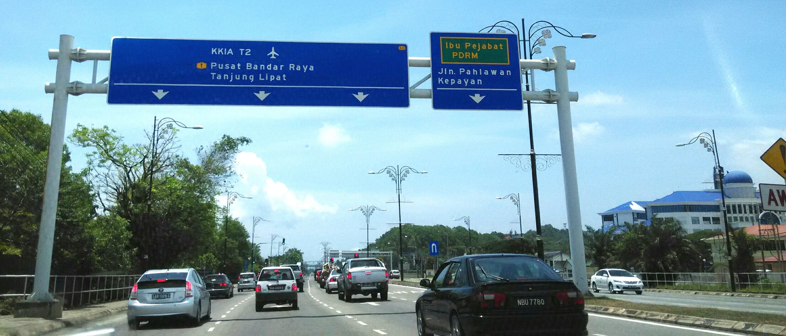 View of Kota Kinabalu Highway, Sabah, Malaysia.